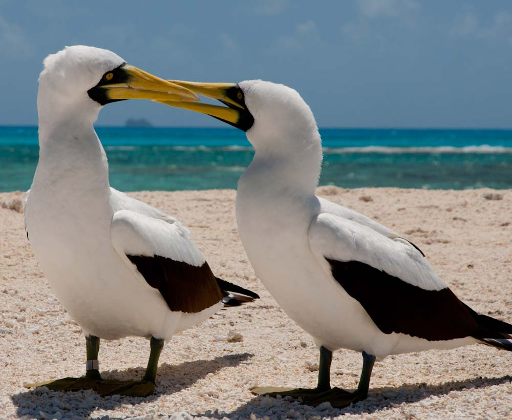 French Frigate Shoals, Hawaiian Islands National Wildlife Refuge, Papahānaumokuākea Marine National Monument (Photo: Lindsay Kramer/USFWS) In February, 2012, the Service released its plan to implement the Conserving the Future Vision, which was developed during a conference in July, 2011.